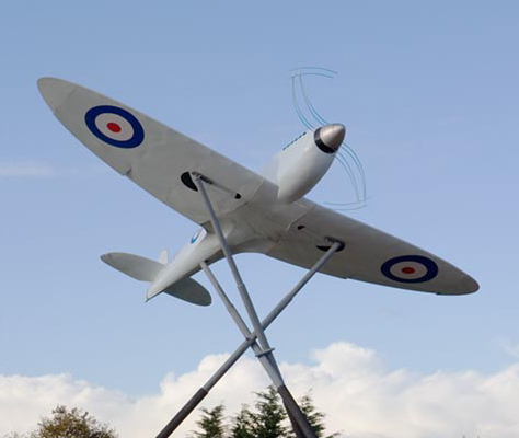 The near full-scale model Supermarine Spitfire Mk V designed by R.J.Mitchell which is on the approach road to Southampton Airport. Sculpture by Alan Manning, installed March 2004